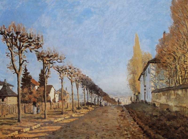 The lane of the Machine by Alfred Sisley in 1873. Photographied in Voisins, city of Louveciennes (Yvelines, France)